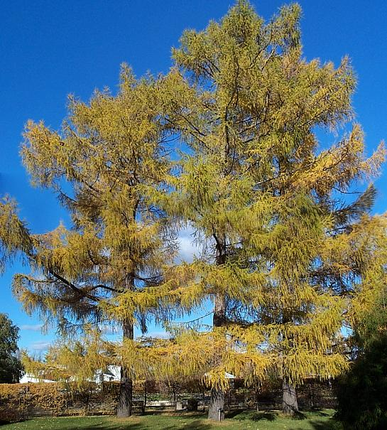 Siberian larch, Larix sibirica, at the Jardin botanique de Montréal. Photos and panorama compositing by Montréalais.